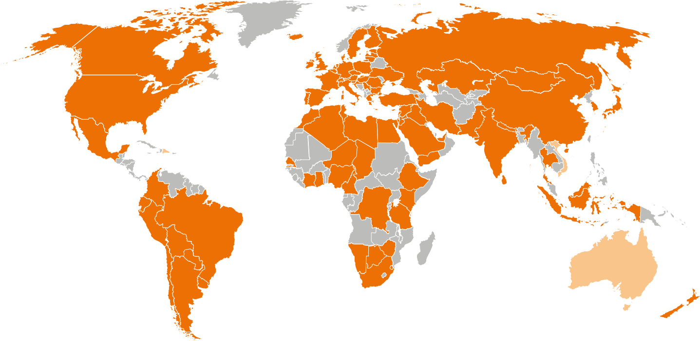 As of May 2017 the World Energy Council has 94 member committees plus 3 direct members in the Dominican Republic, Vietnam and Australia.